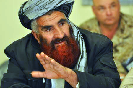 Haji Khan Agha, director of the Helmand Arghandab Valley Authority, questions a presenter during a summit that brought leadership from Nimroz and Helmand provinces together with members of the United States Agency for International Development and the International Security Assistance Force, March 1, to discuss water management at the Afghan Cultural Center, Camp Leatherneck.